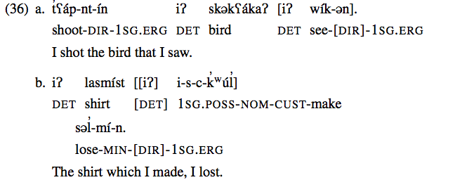 Okanagan example 2, Relative clause